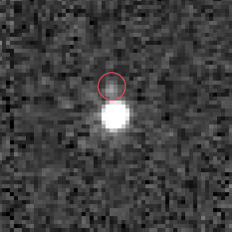 225088 Gonggong (2007 OR10) with its moon. It was the largest unnamed Solar System and Kuiper Belt object before official naming on 5 February 2020.